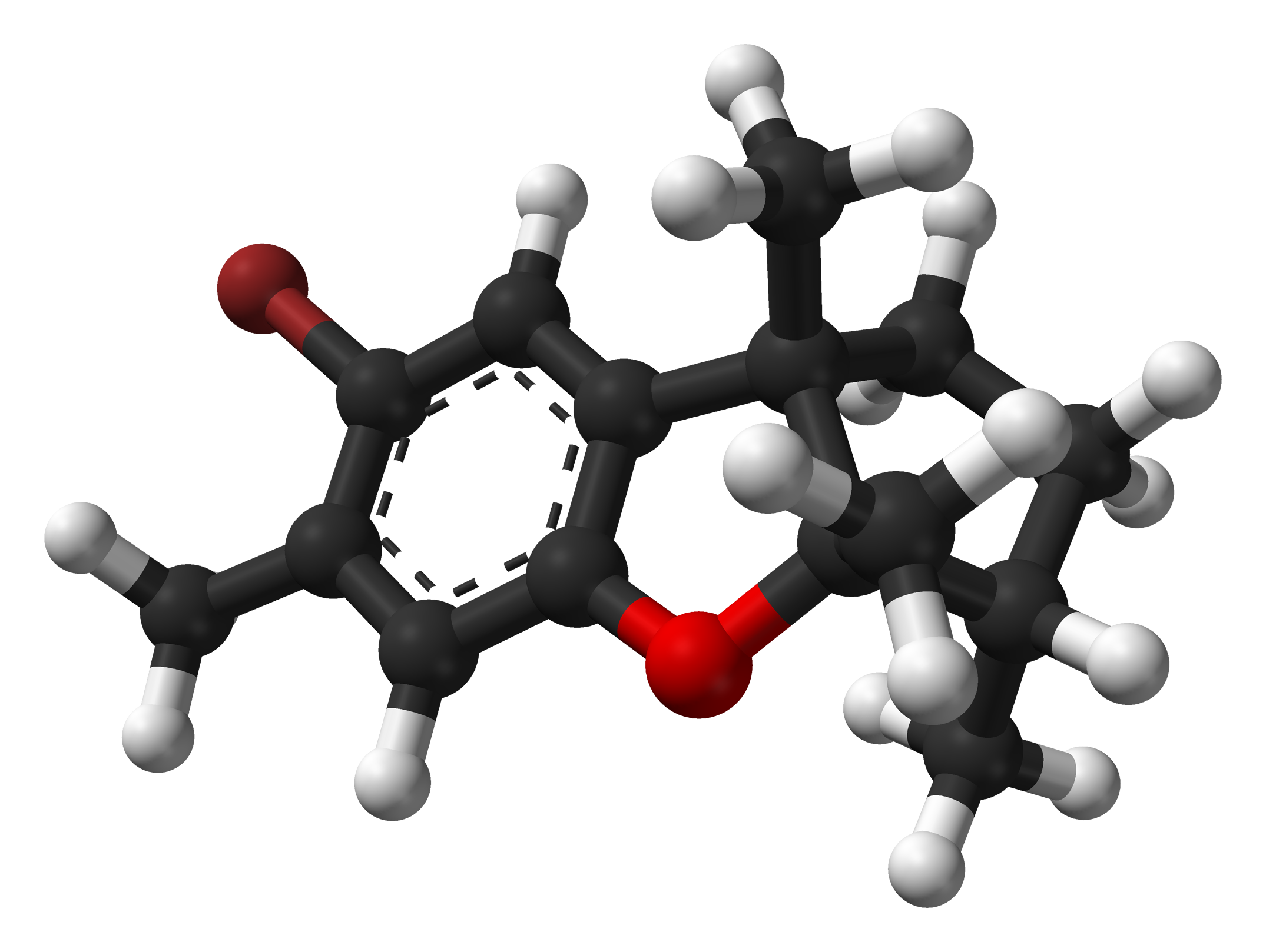 Ball-and-stick model of the aplysin molecule, C15H19BrO. Colour code: Carbon, C: black Hydrogen, H: white Bromine, Br: red-brown Oxygen, O: red Structure calculated with Spartan Student 4.1, using the PM3 semi-empirical method. Image generated in Accelrys DS Visualizer. Structure from Tetrahedron Lett. (2001) 42, 4913-4914.